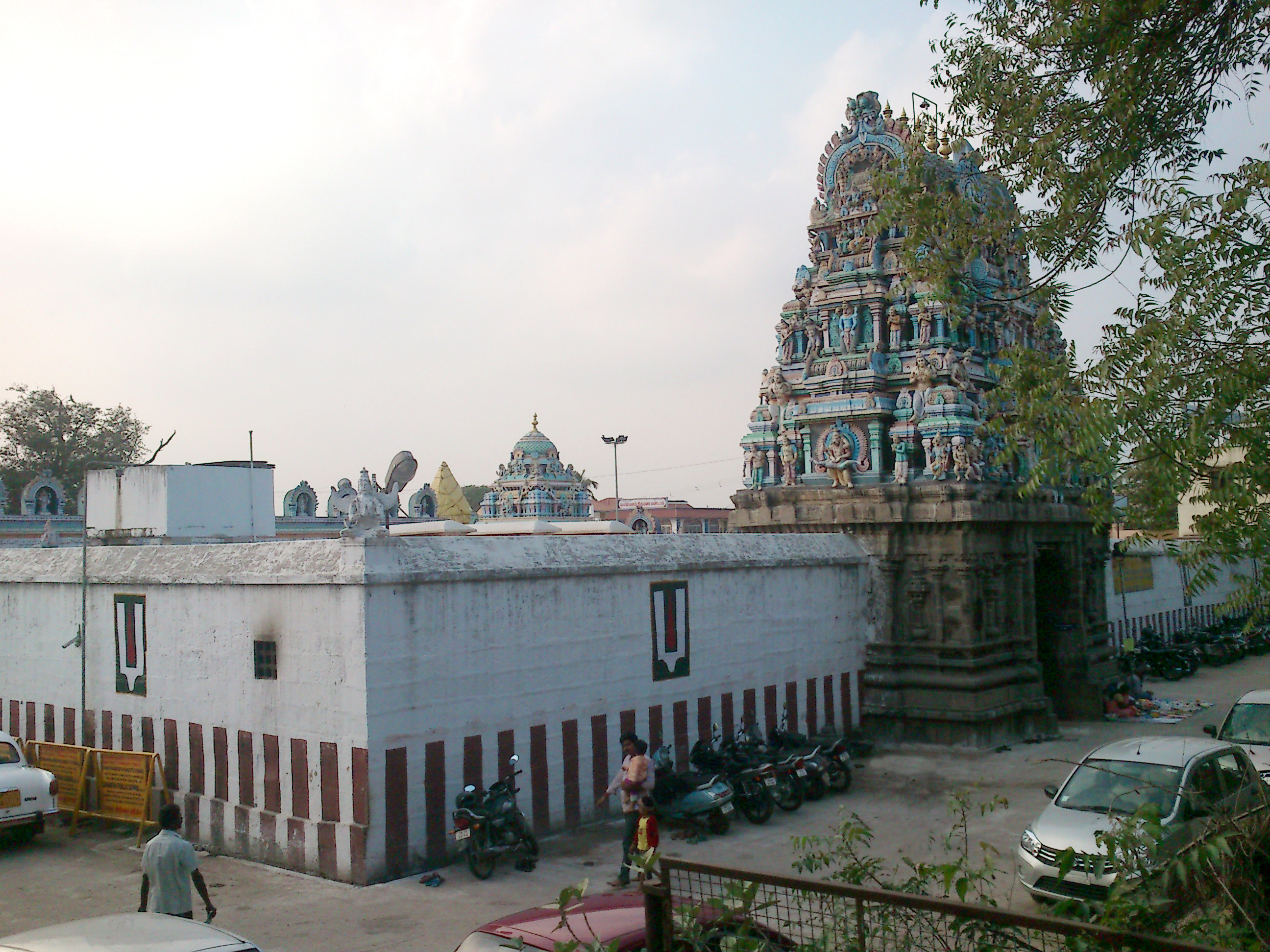 Sri Neervannaperumal temple at Thiruneermalai. Thousands of years old visited by Alwars (Naalayira Divya Prabhandham)